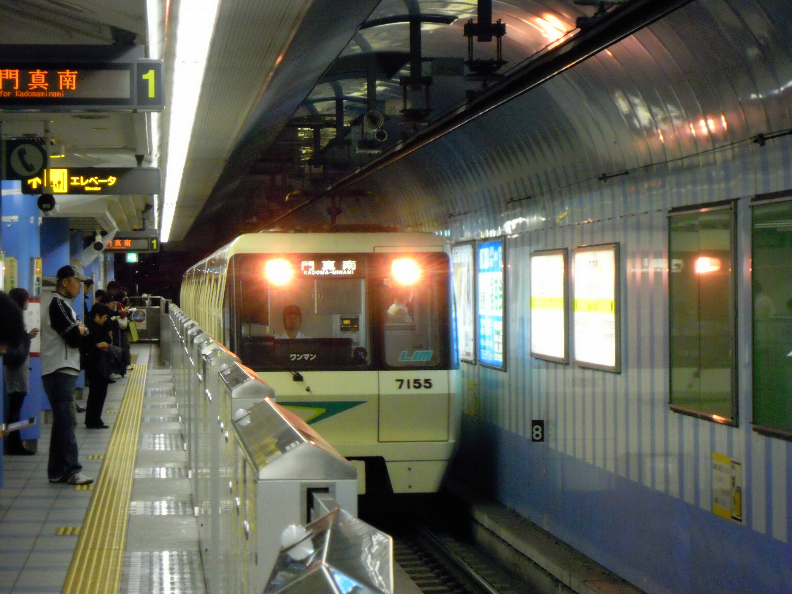 Nagahori Tsurumiryokuchi Line Nagahoribashi Station platform